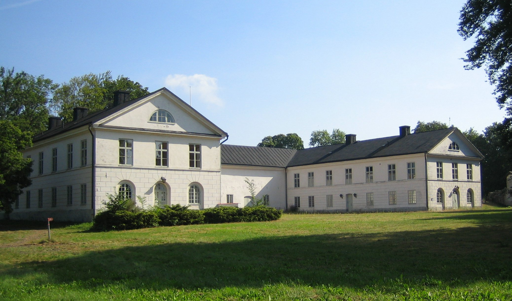 Picture of Herrevadskloster castle in Scania, Sweden.